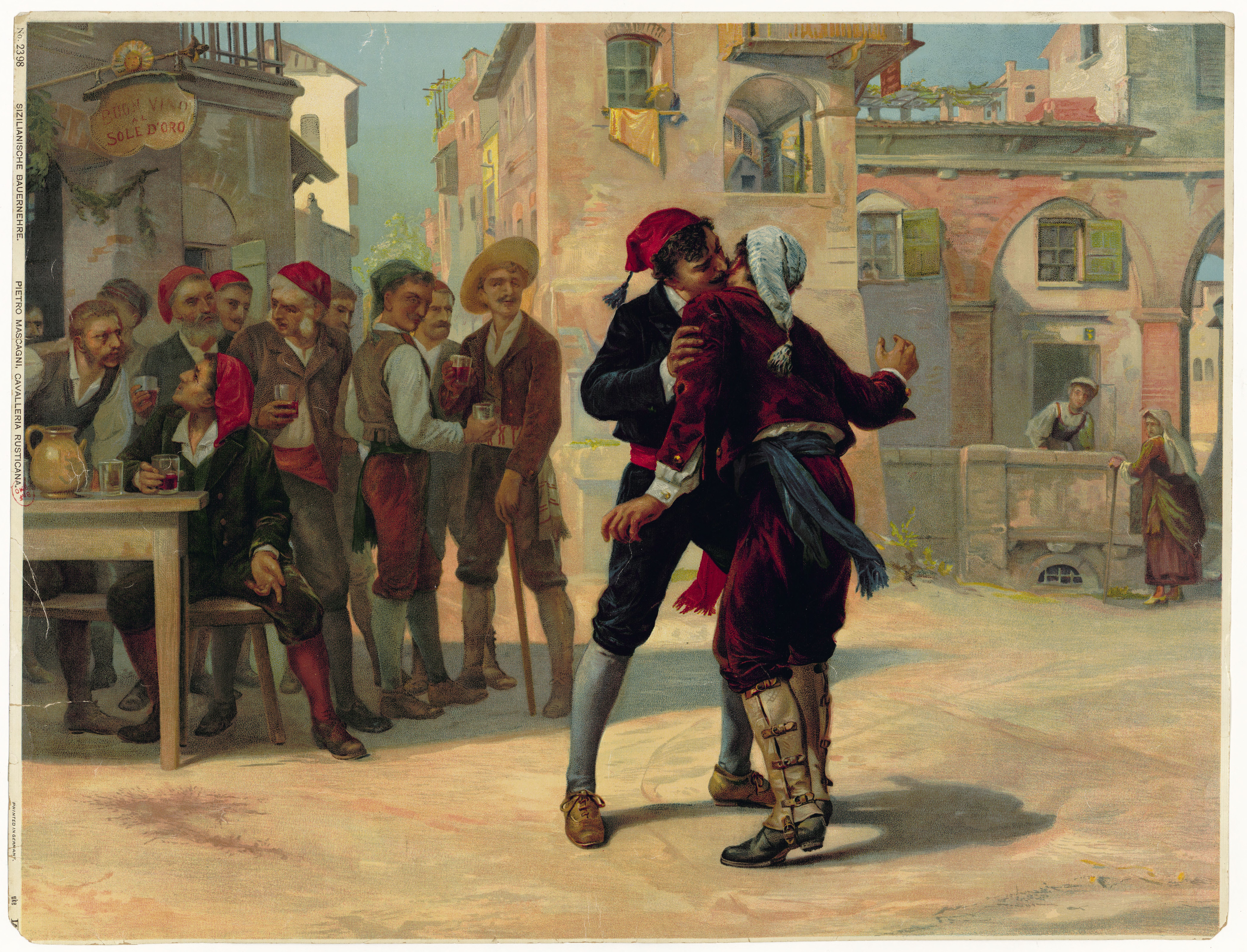 "Sizilianische Bauernehre. Pietro Mascagni : Cavalleria Rusticana" - Scene from near the end of the opera, where Alfio and Turiddu embrace as part of the ceremony before their duel.